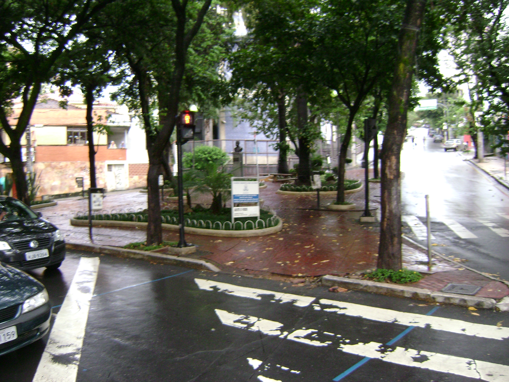 Praça no bairro São Pedro, em Belo Horizonte